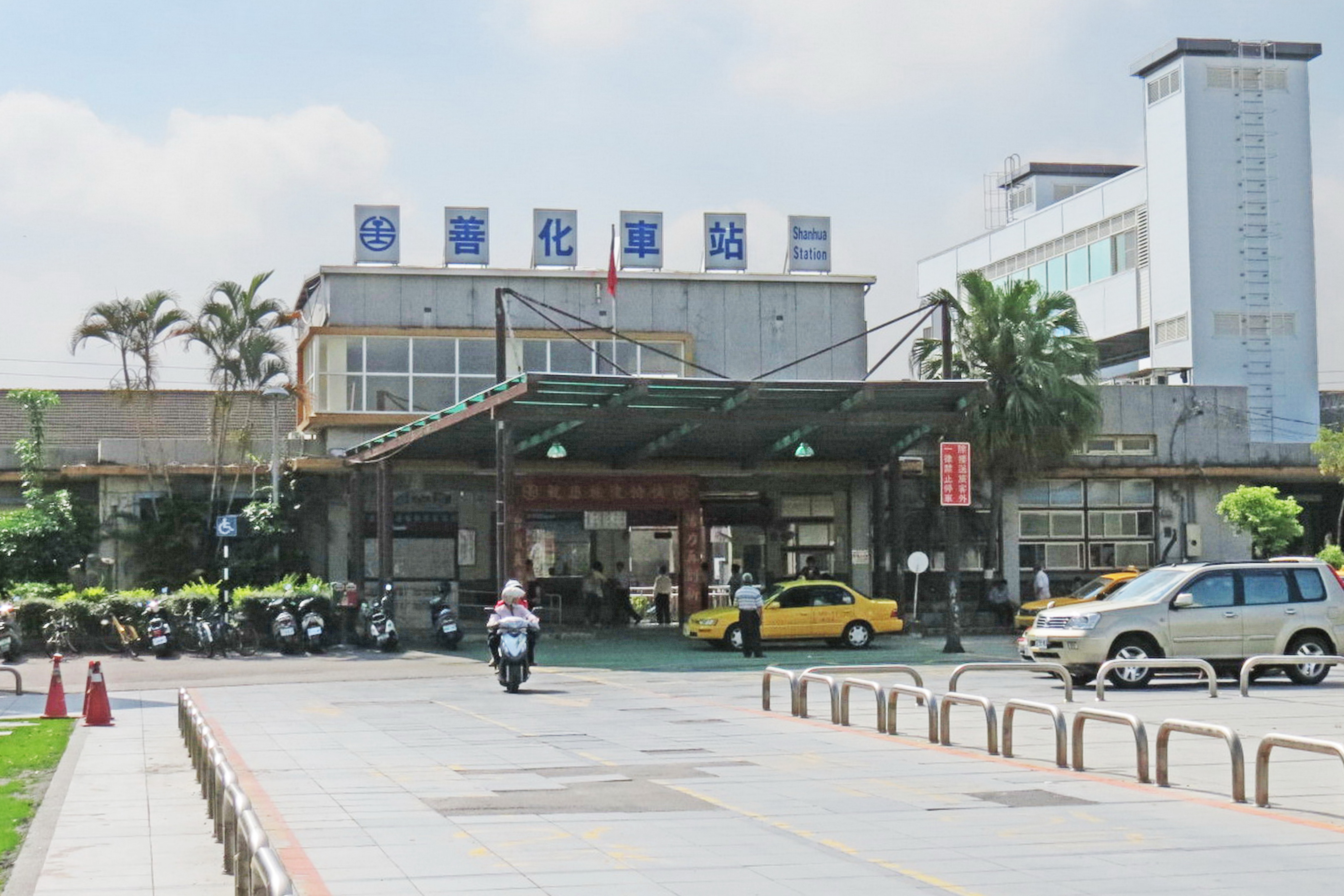 TRA Shanhua Station中文（台灣）: 臺灣鐵路管理局善化車站